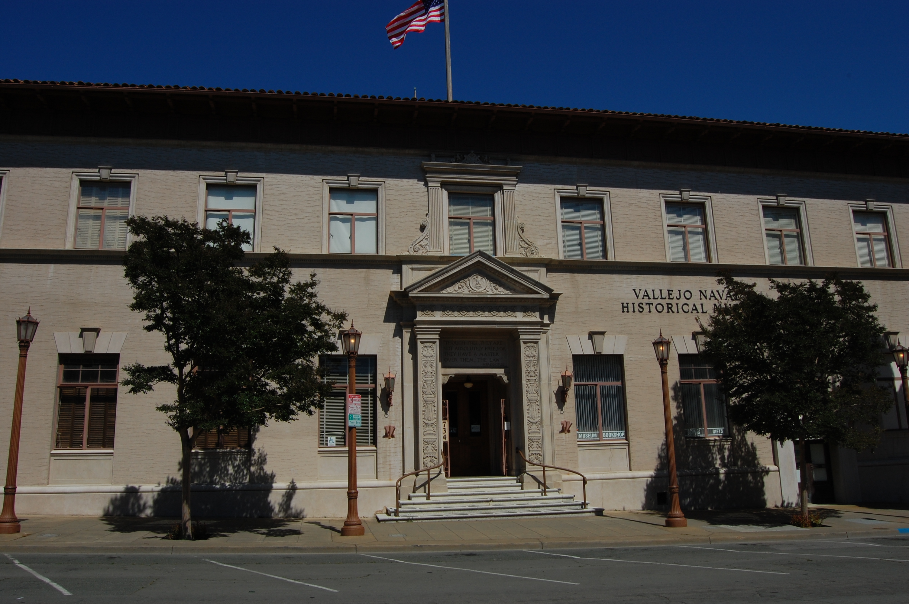 Vallejo Naval and Historical Museum. City Hall and County Building in past. 734 Marin Street. Vallejo, California, USA